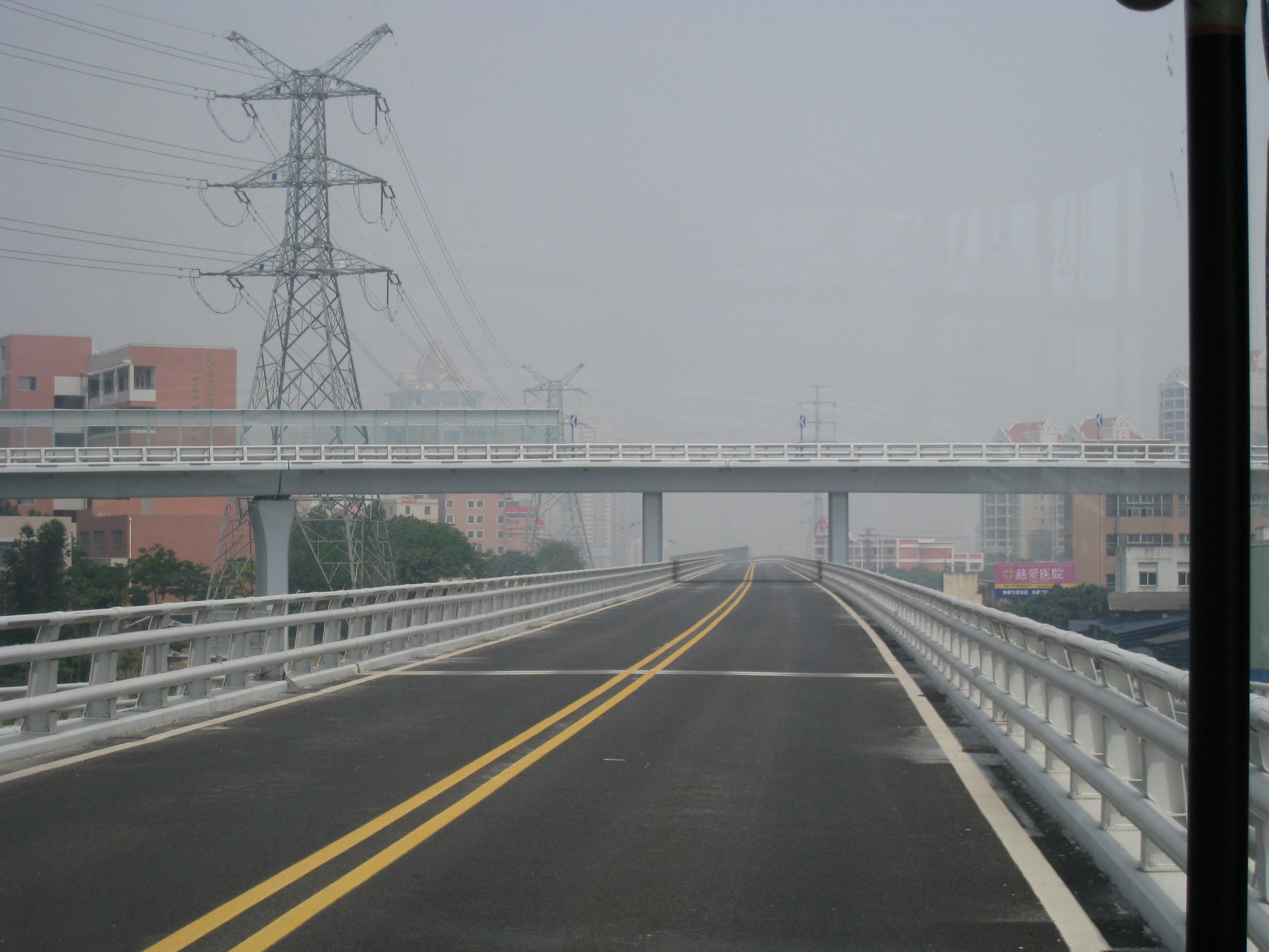 Xiamen BRT Road